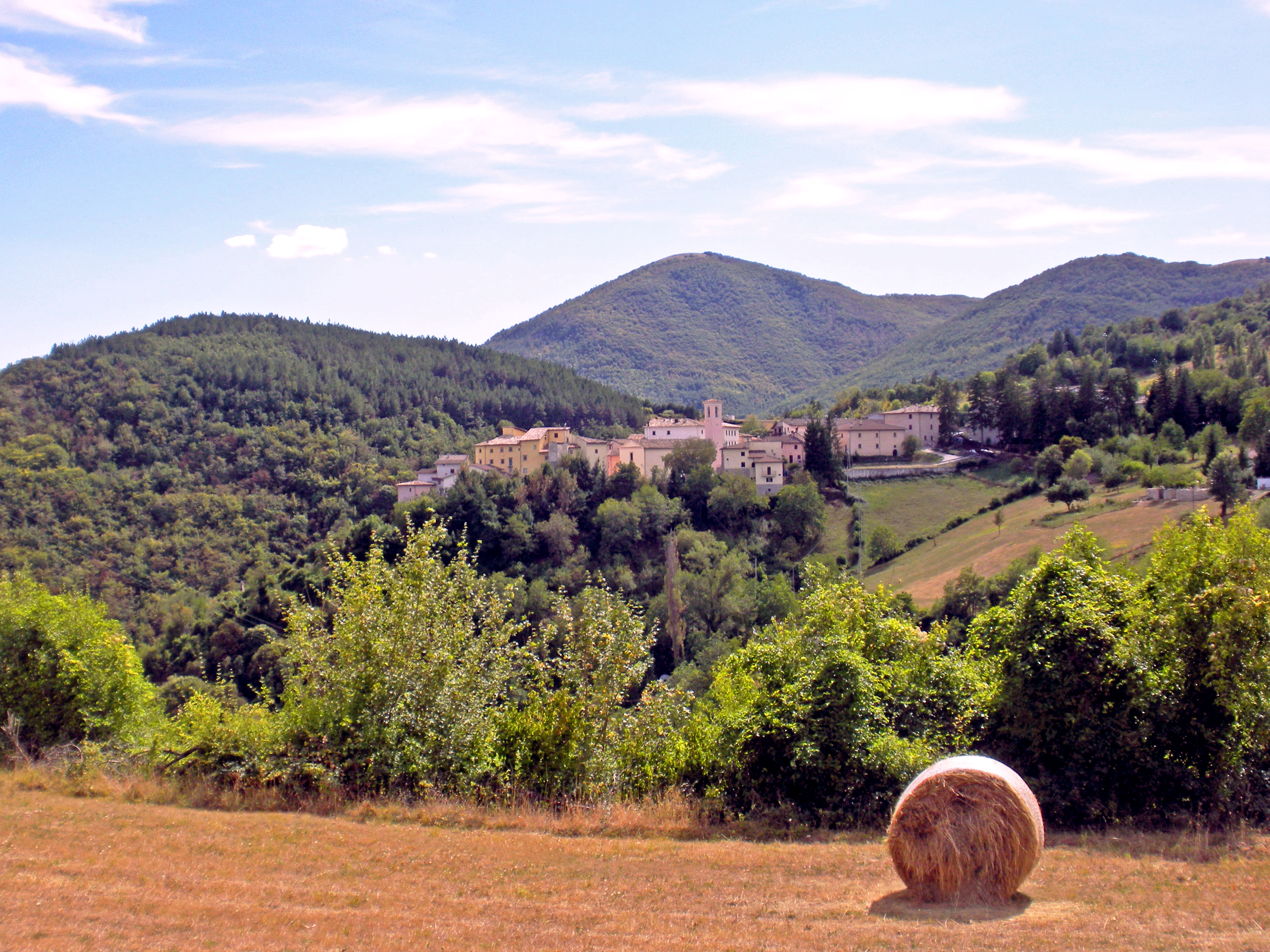 Poggiodomo (panorama)